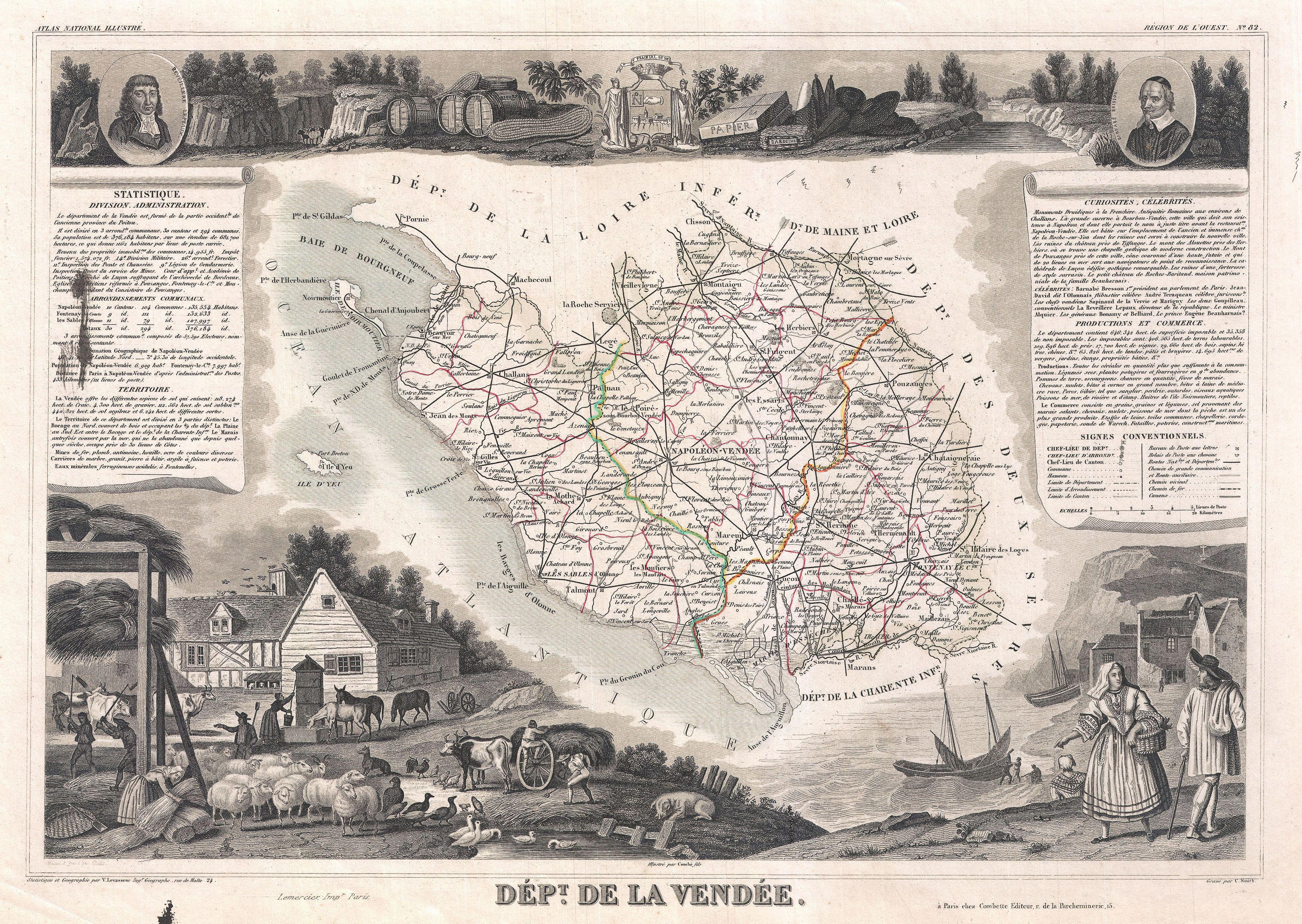 This is a fascinating 1852 map of the French department of Vendee, France. Vendee is home to a number of small vineyards around the communes of Vix, Brem, Pissotte and Mareuil-sur-Lay. These wines are marketed under the Fiefs Vendéens designation. Production quality has improved markedly over recent years, and, having already achieved the classification Vin Délimité de Qualité Supérieure (VDQS), the wines are on their way towards A.O.C status (Appellation d’Origine Contrôlée). The map proper is surrounded by elaborate decorative engravings designed to illustrate both the natural beauty and trade richness of the land. There is a short textual history of the regions depicted on both the left and right sides of the map. Published by V. Levasseur in the 1852 edition of his Atlas National de la France Illustree.